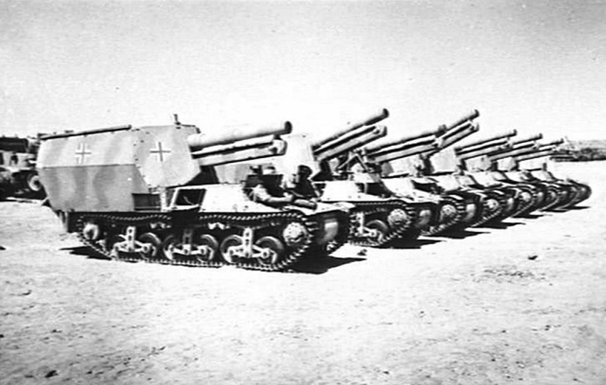 Seven captured German Sd Kfz 135/1 self propelled 15 cm howitzers from the Panzerartillerieabteilung of the 21st Panzer Division near El Alamein, Egypt.